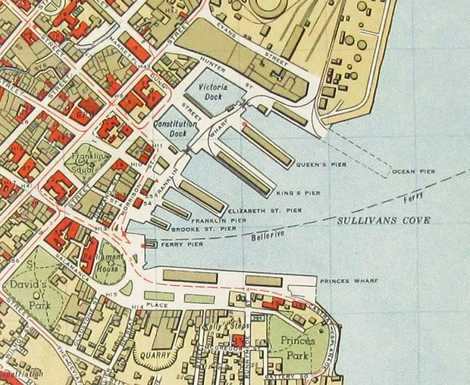 Map 5 of Hobart aerial survey map - cropped to Sullivans Cove area